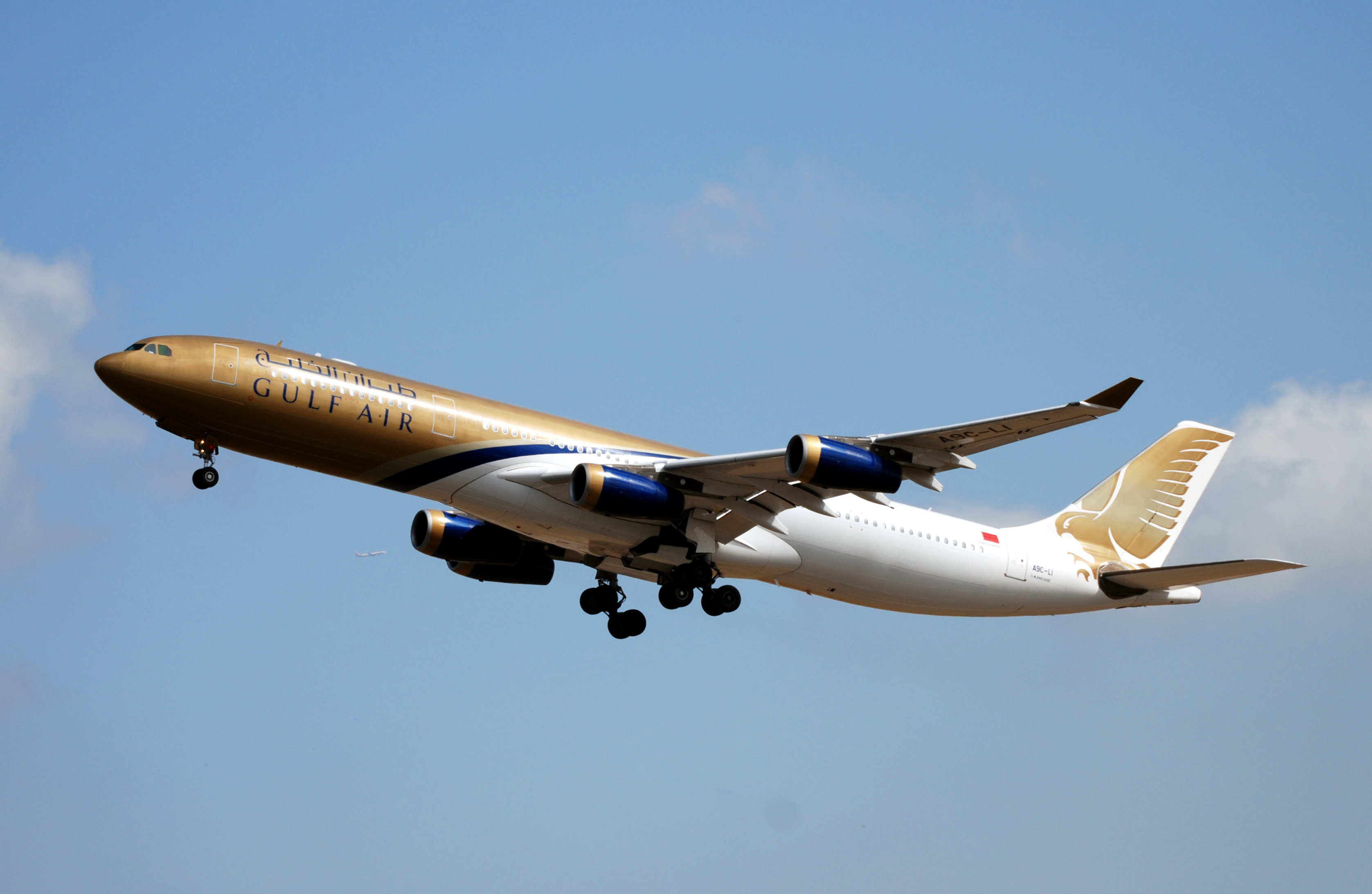 Heathrow,Aug 2010